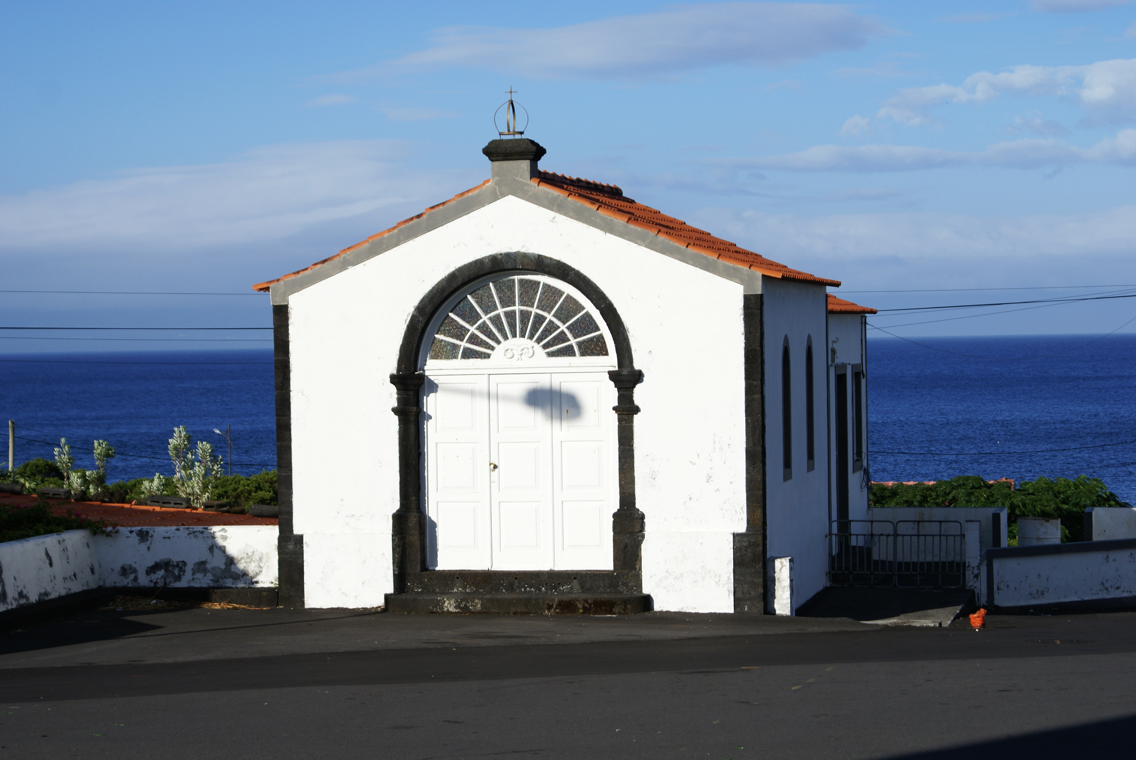 Império do Espírito Santo de São Roque, São Roque do Pico, ilha do Pico, Açores, Portugal